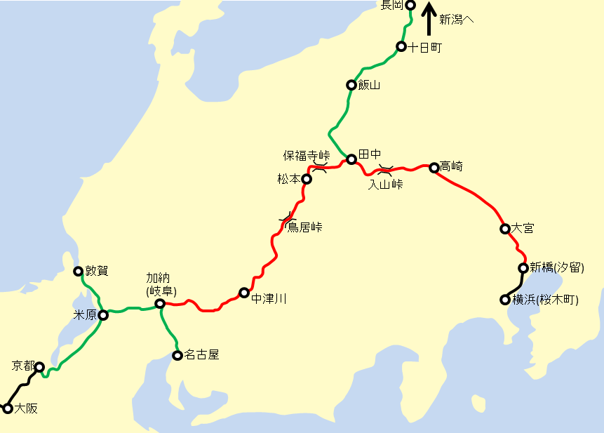 Route map of Nakasendo Trunk Railway, proposed by a foreign technical advisor Richard Boyle. Black solid line represents railway lines already in operation at that time, red solid line represents proposed Nakasendo Trunk Railway, and green solid line represents